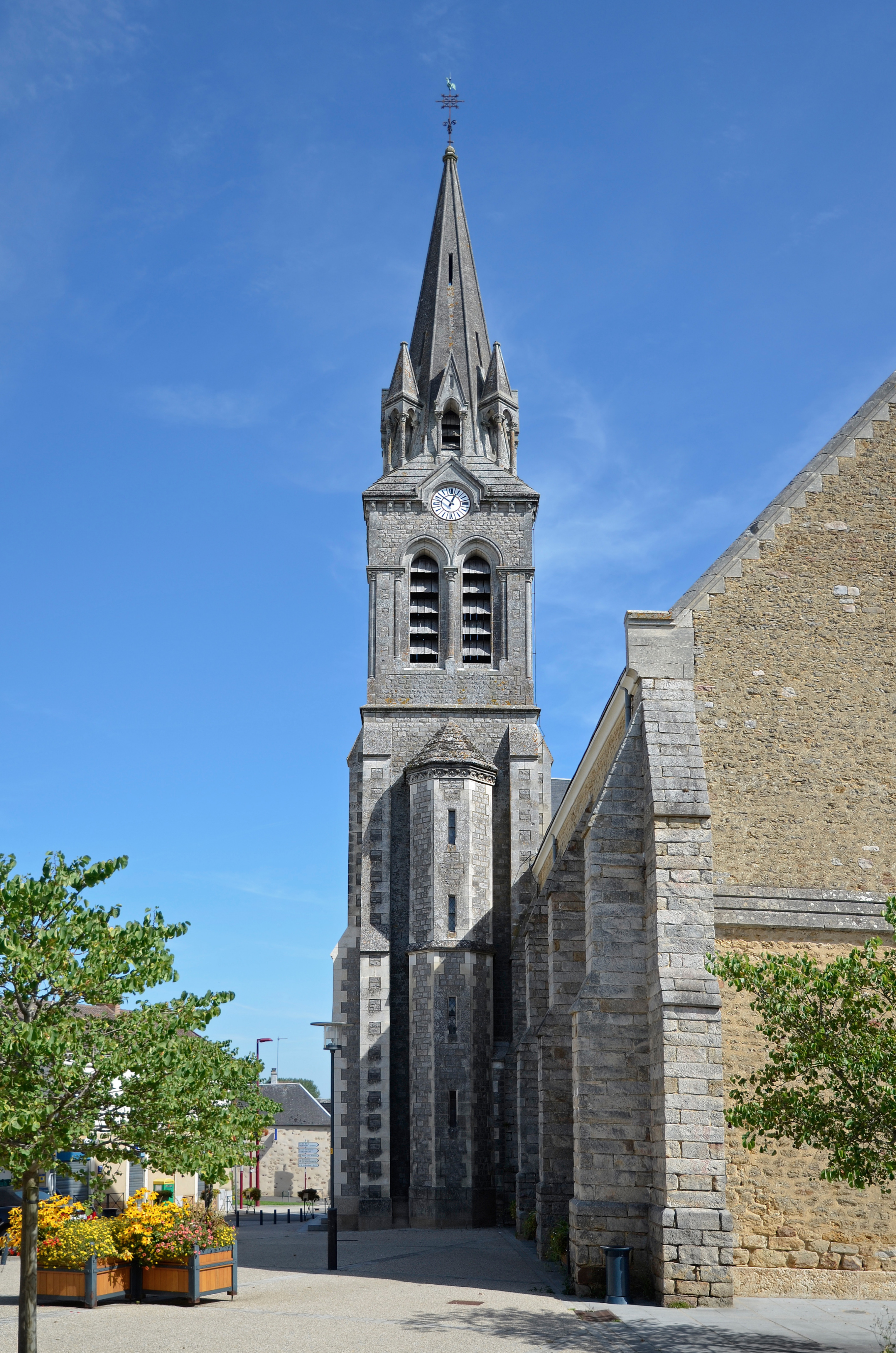 Saint-Germain church - Yvré-l'Évêque - Sarthe, France. .